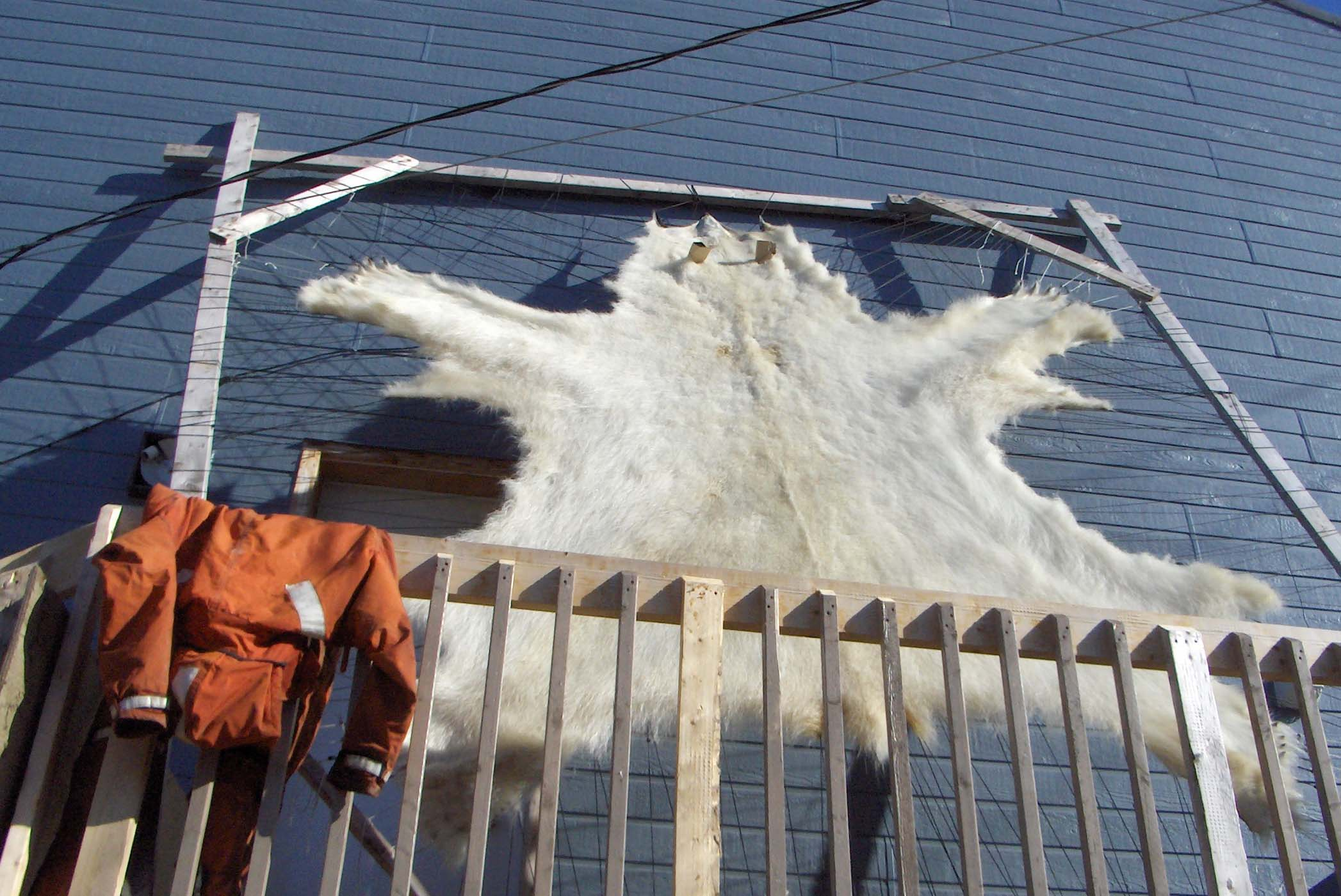 The following is the author's description of the photograph quoted directly from the photograph's Flickr page. "A polar bearskin drying on a frame on a porch in Pangnirtung, Nunavut, Canada. "